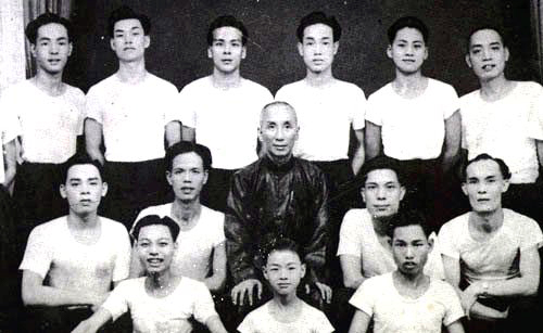 Yip Man and his students. To the right of Yip Man is Leung Sheung.